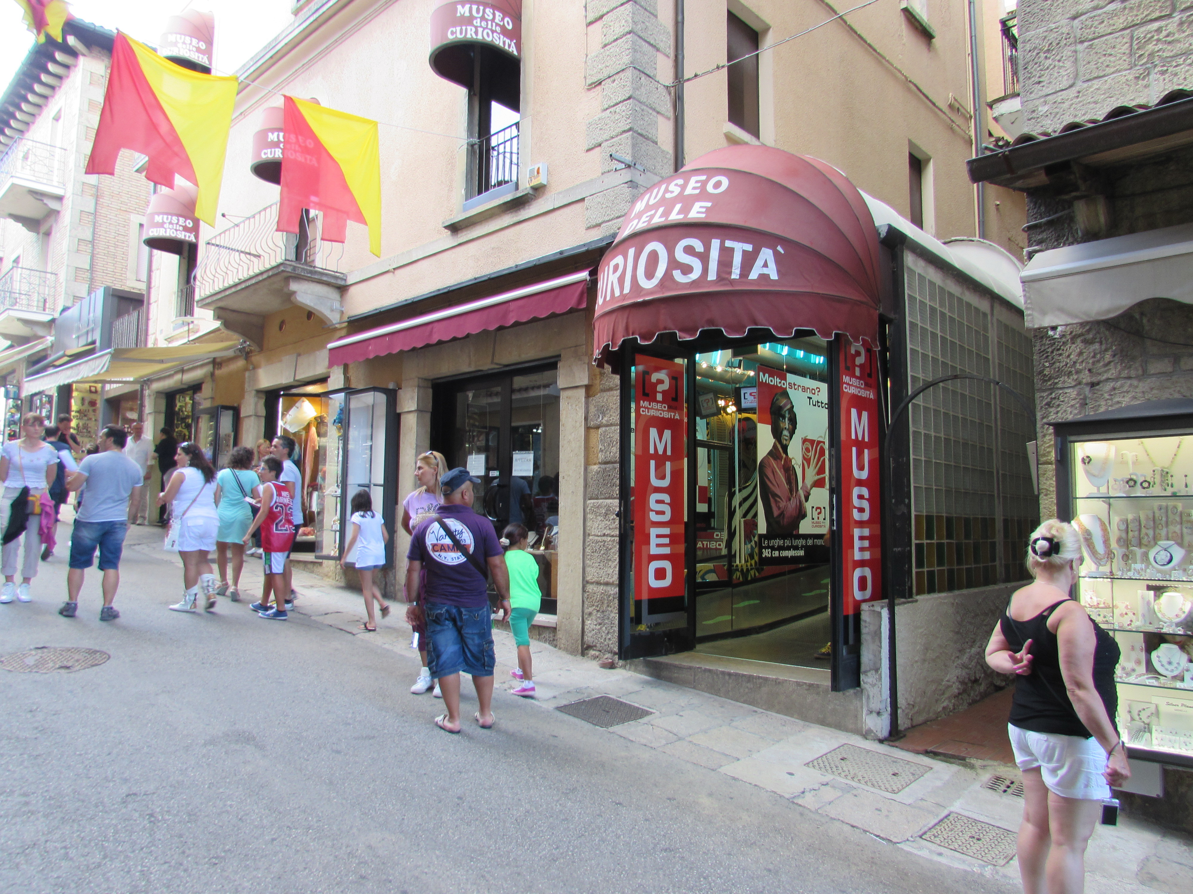 Image of San Marino